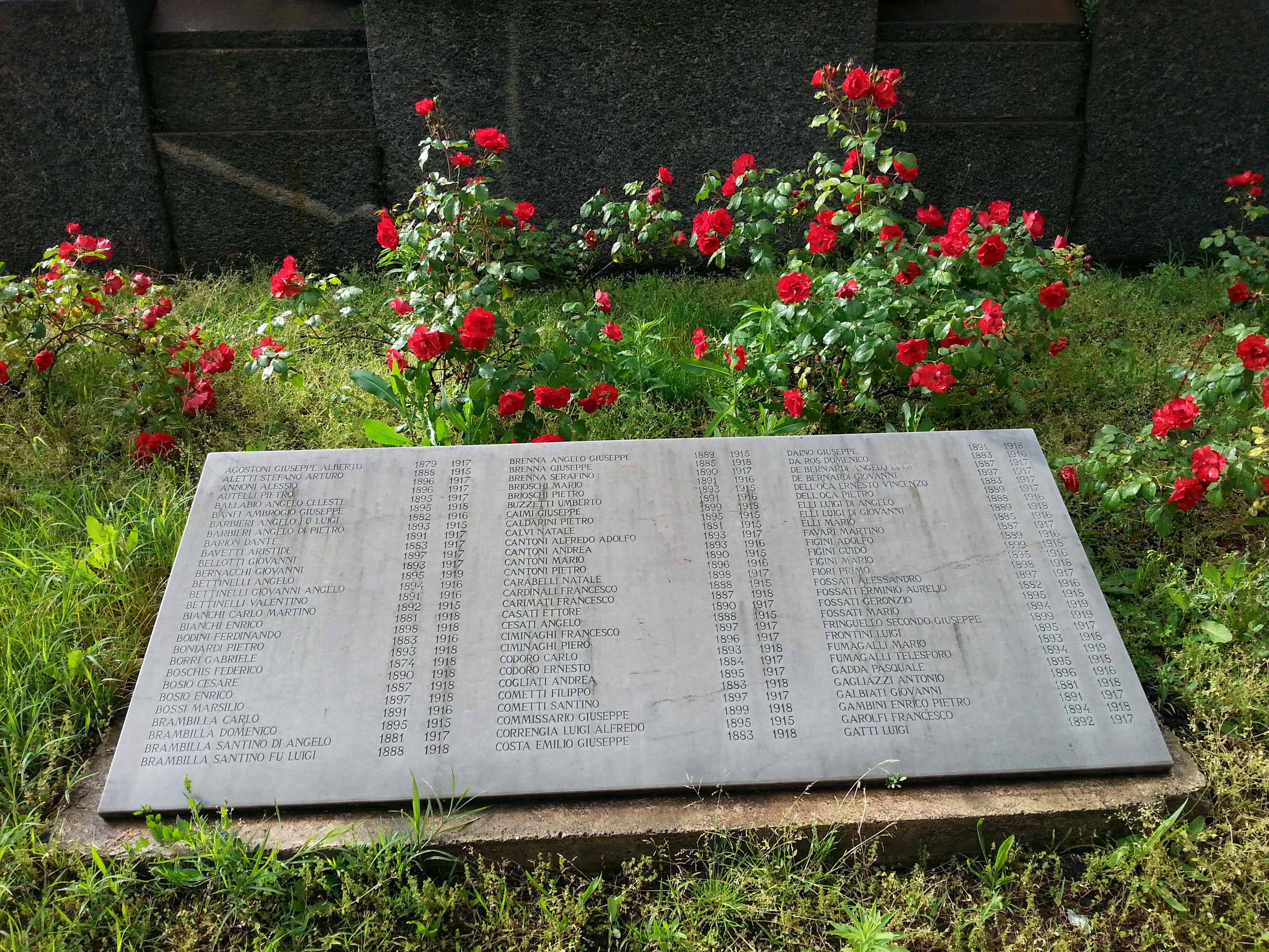 The plaque with the fallen names between Agostoni and Gatti